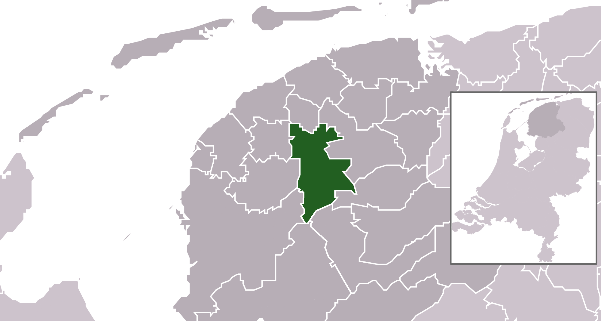 Location maps for the 441 municipalities in the Netherlands. Boundaries 1/1/2009 Automatically generated with script File name contains "Municipality code" (CBS-code) as specified in: [1] Created in svg using coordinate data derived from ESRI data published by Centraal Bureau voor de Statistiek, Voorburg/Heerlen. ([2]) Color coding and original design (slightly adpated by me) by user Mtcv (2006/2007) ([3]) Changed version with the new muncipalities Súdwest Fryslân, De Friese Meren, Hollandse Kroon and the muncipalities which area has increased: Heerenveen and Leeuwarden. 2014 The copyright holder of this file, Centraal Bureau voor de Statistiek, allows anyone to use it for any purpose, provided that the copyright holder is properly attributed. Redistribution, derivative work, commercial use, and all other use is permitted. Attribution: Centraal Bureau voor de Statistiek This work is free and may be used by anyone for any purpose. If you wish to use this content, you do not need to request permission as long as you follow any licensing requirements mentioned on this page.